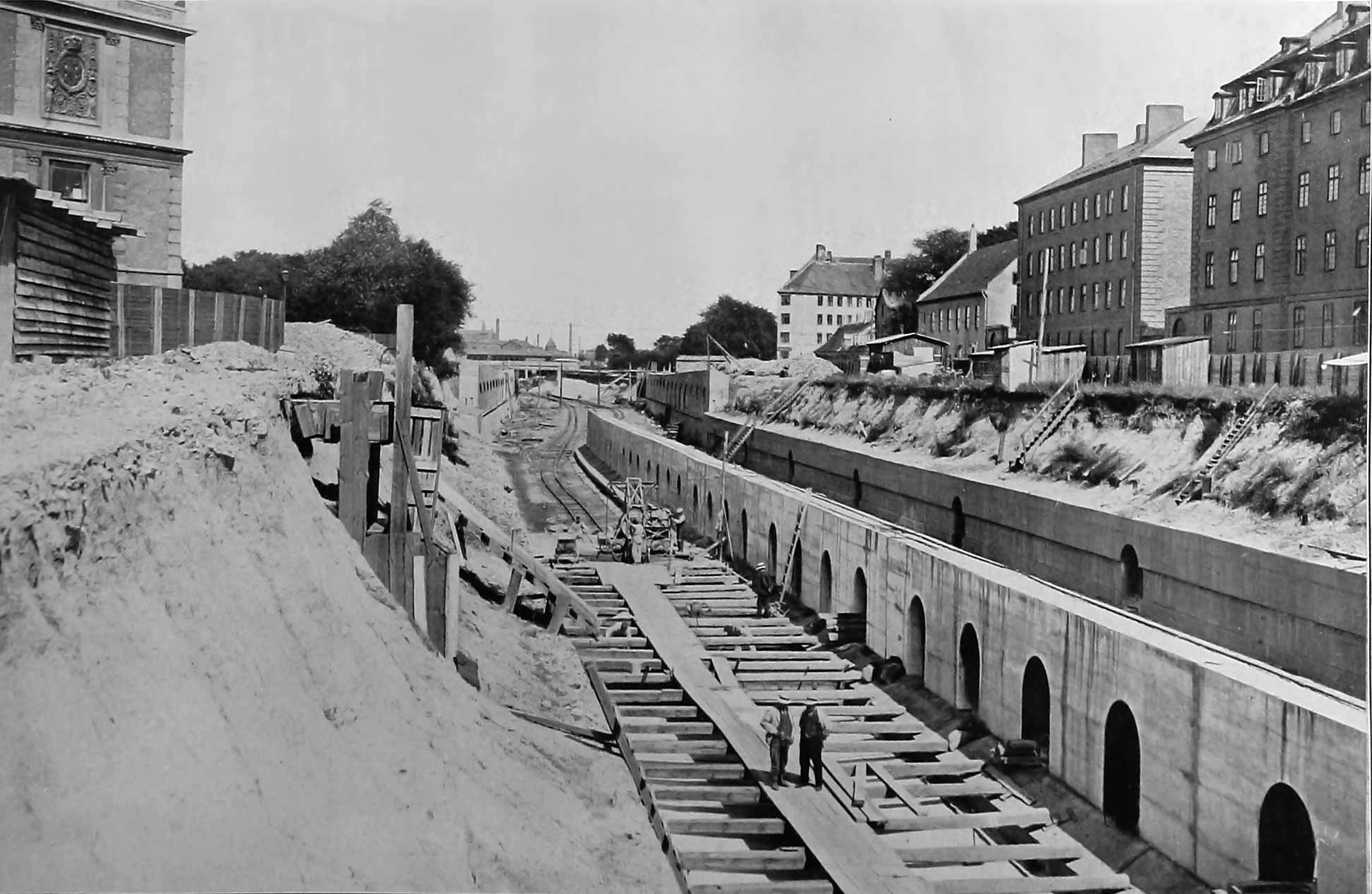 Construction of the Copenhagen underground railway section Boulevardbanen. Photograph from 1914.